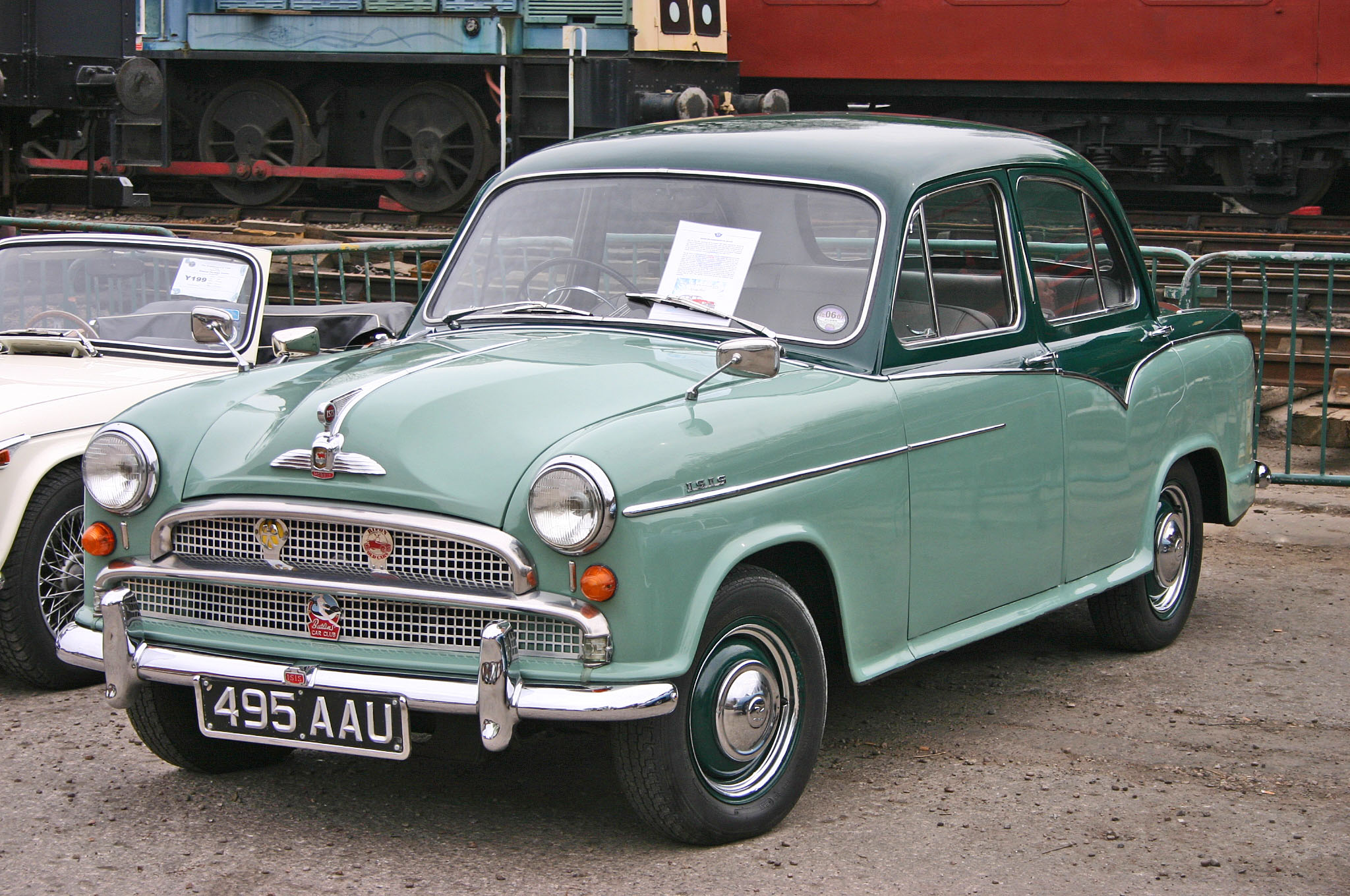 The name "Isis" was only given to the 6cylinder version of the Morris Oxford Series II (The 6cylinder MO Oxford was known as the 'Morris Six MS'). Hence the Series III Oxford 6cylinder became the Morris Isis Series II